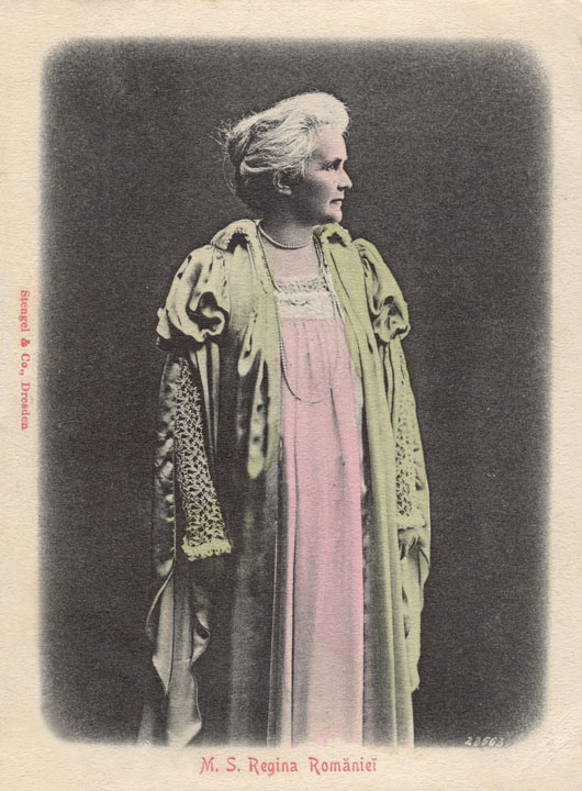 Queen Elisabeth of Romania Postcard - Stengel & Co., Dresden